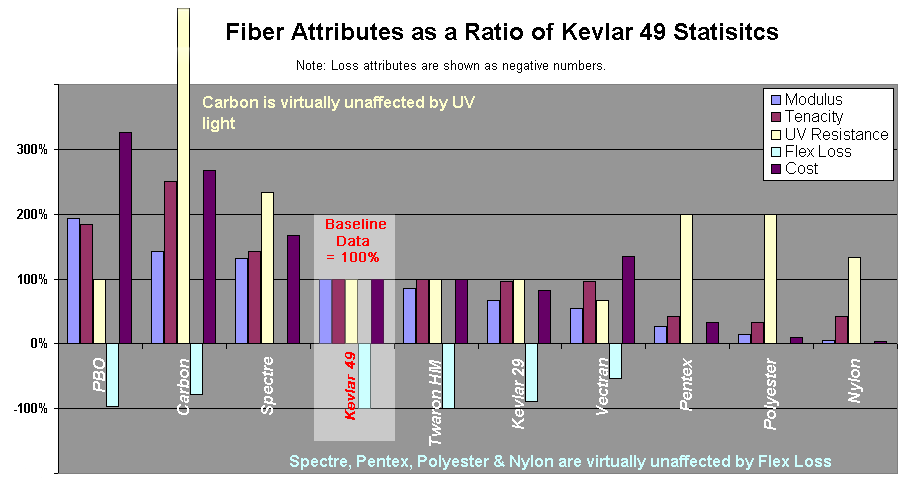 features of Sailclothfibers